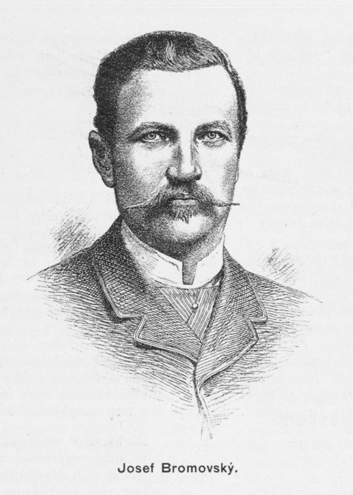 Portrait of Josef Bromovský (1841-1911), Czech entrepreneur and politician